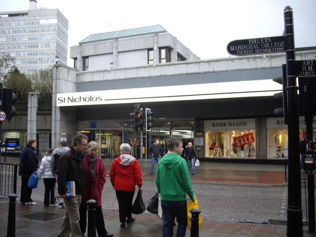 Entrance to St Nicholas shopping centre From School Hill.